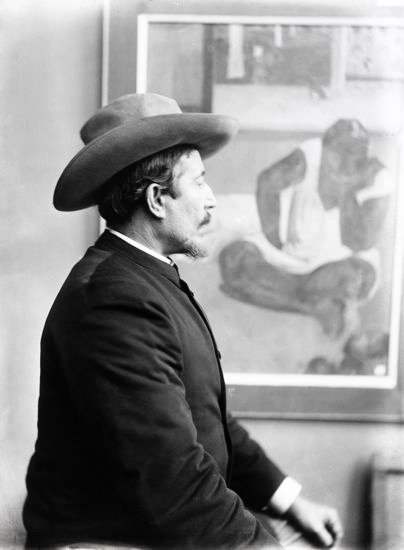 Publicity photograph for Paul Gauguin's 1893 Durand-Ruel exhibition